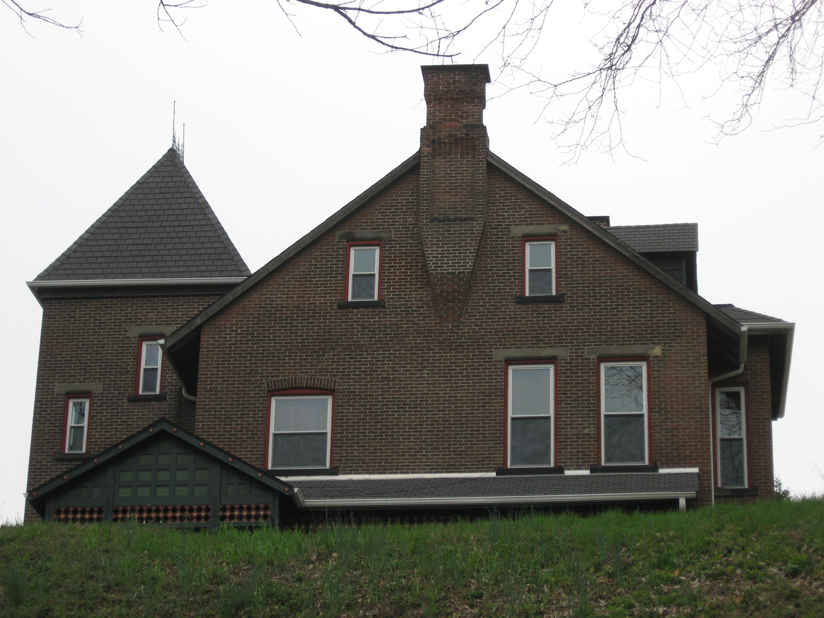 Front of the Lucy Tarr Mansion, located at 1456 Pleasant Avenue in Wellsburg, West Virginia, United States. Built in 1885, it is listed on the National Register of Historic Places.